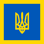 Flag of the President of Ukraine (first seen 2014)